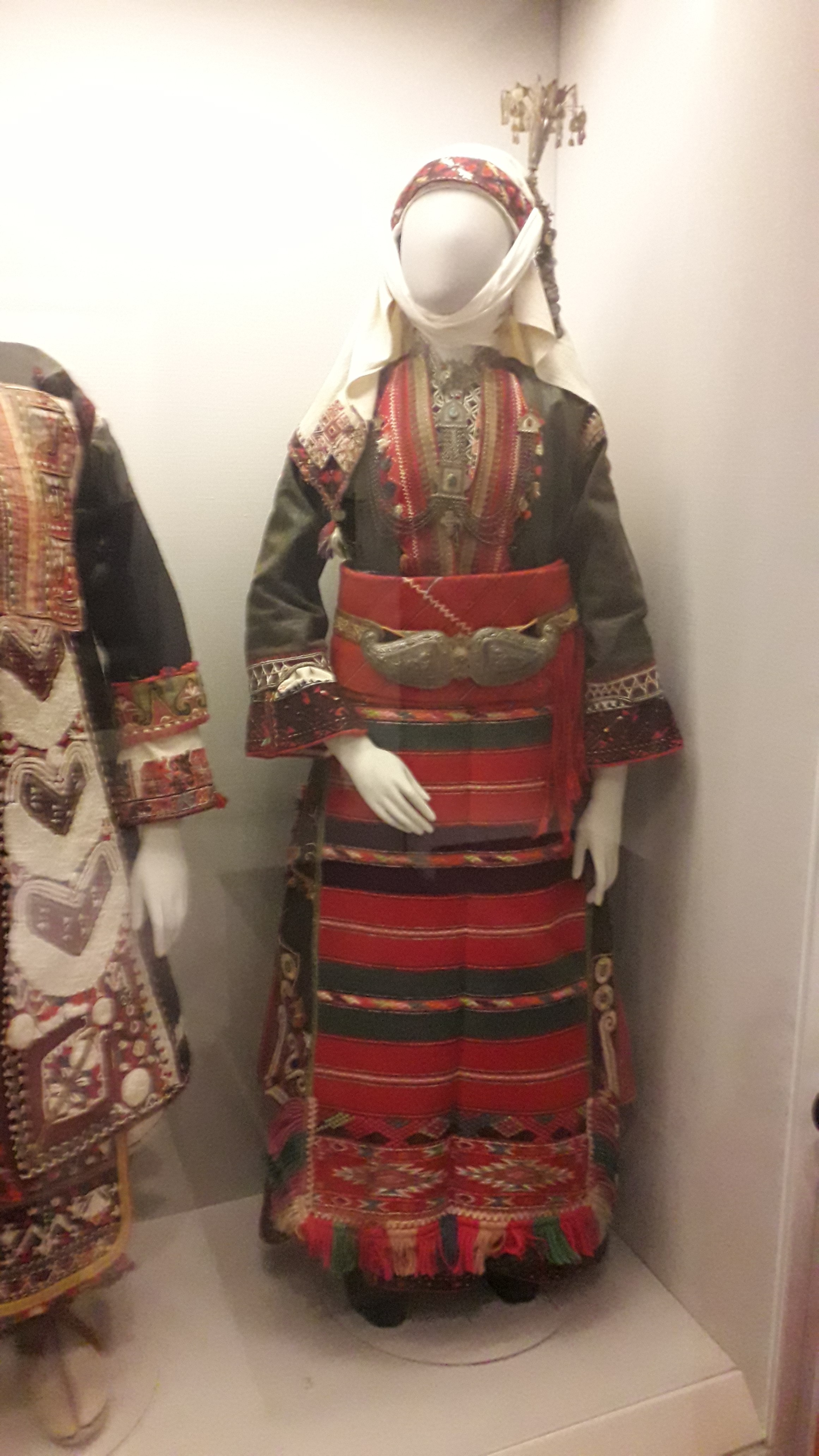 Costume from Kaputzida